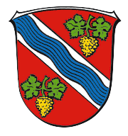 Coat of Arms of Dietzenbach